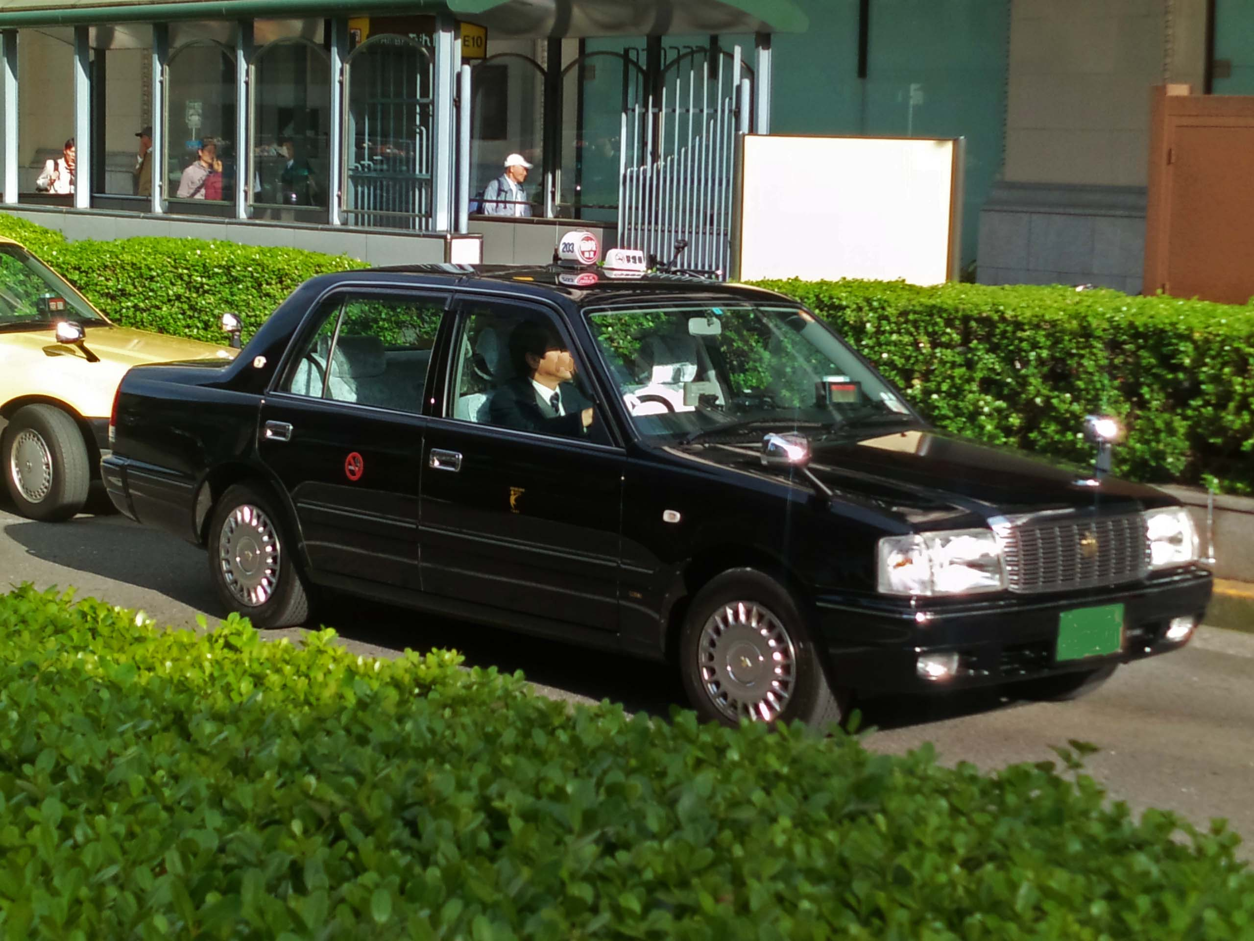 Kokusai kogyo osaka taxi